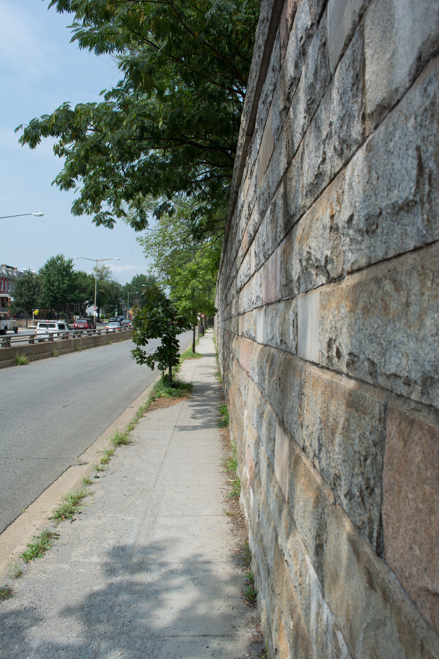 North Capitol Street wall north of the main gate at Prospect Hill Cemetery in Washington, D.C., in the United States in 2014. Prospect Hill Cemetery was added to the Register of Historic Places of the District of Columbia (a listing of historic sites maintained by the city) in 2005. North Capitol Street was cut through the western portion of the cemetery in 1897. This required construction of a retaining wall along the street. The wall, which varies in height from two feet near the entrance to almost 15 feet elsewhere, consists of variously colored rusticated granite. It was constructed and paid for by the city, using federal funds.